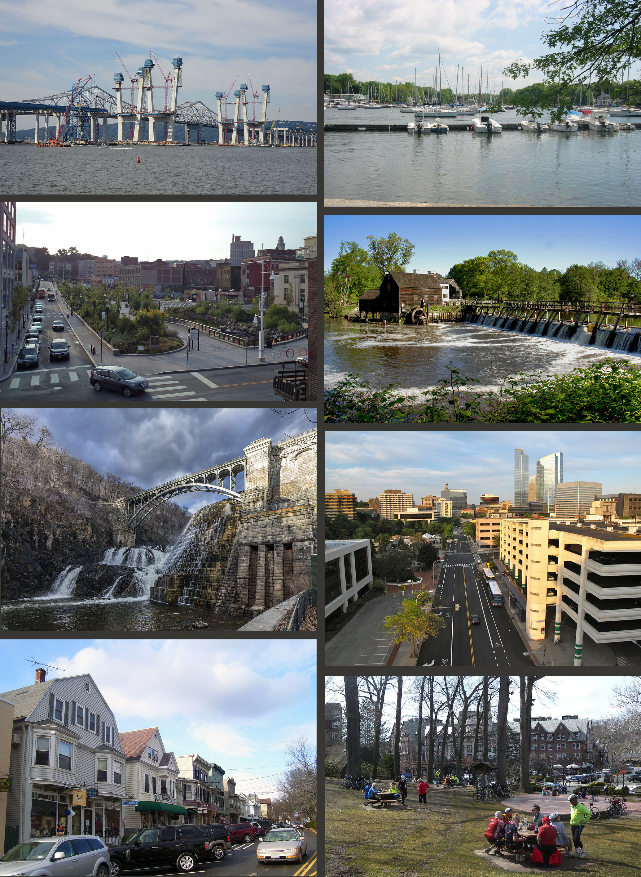 Compilation of Westchester images. File:Scarsdale lunch park jeh.jpg File:137-3778 IMG (14938233).jpg File:Downtown Katonah, NY.jpg File:Daylighted Saw Mill River Downtown Yonkers.jpg File:Daylighted Saw Mill River Downtown Yonkers.jpg File:New Croton Dam NY1.jpg File:New Tappan Zee bridge 2018 Aug a jeh.jpg File:View of Philipsburg Manor (Sleepy Hollow) New York.jpg